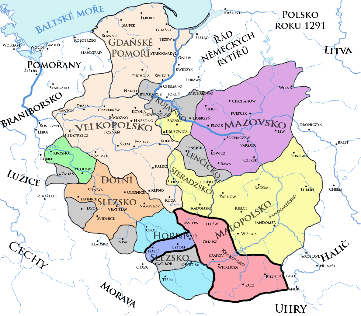 Political situation in Poland around 1291. In Czech language.